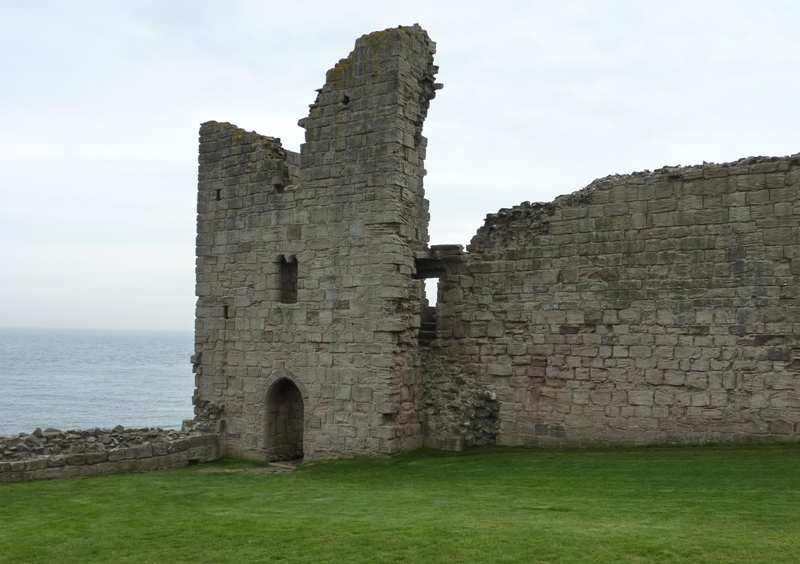 Dunstanburgh Castle, Northumberland, England. Egyncleugh Tower seen from the courtyard.